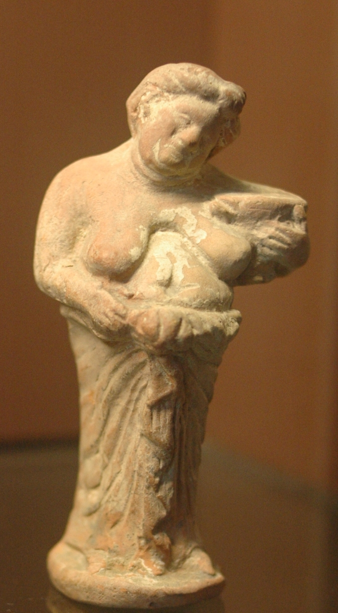 Grotesque woman holding a vase. Terracotta from Kertch, made in Attica (?), ca. 350–300 BC.